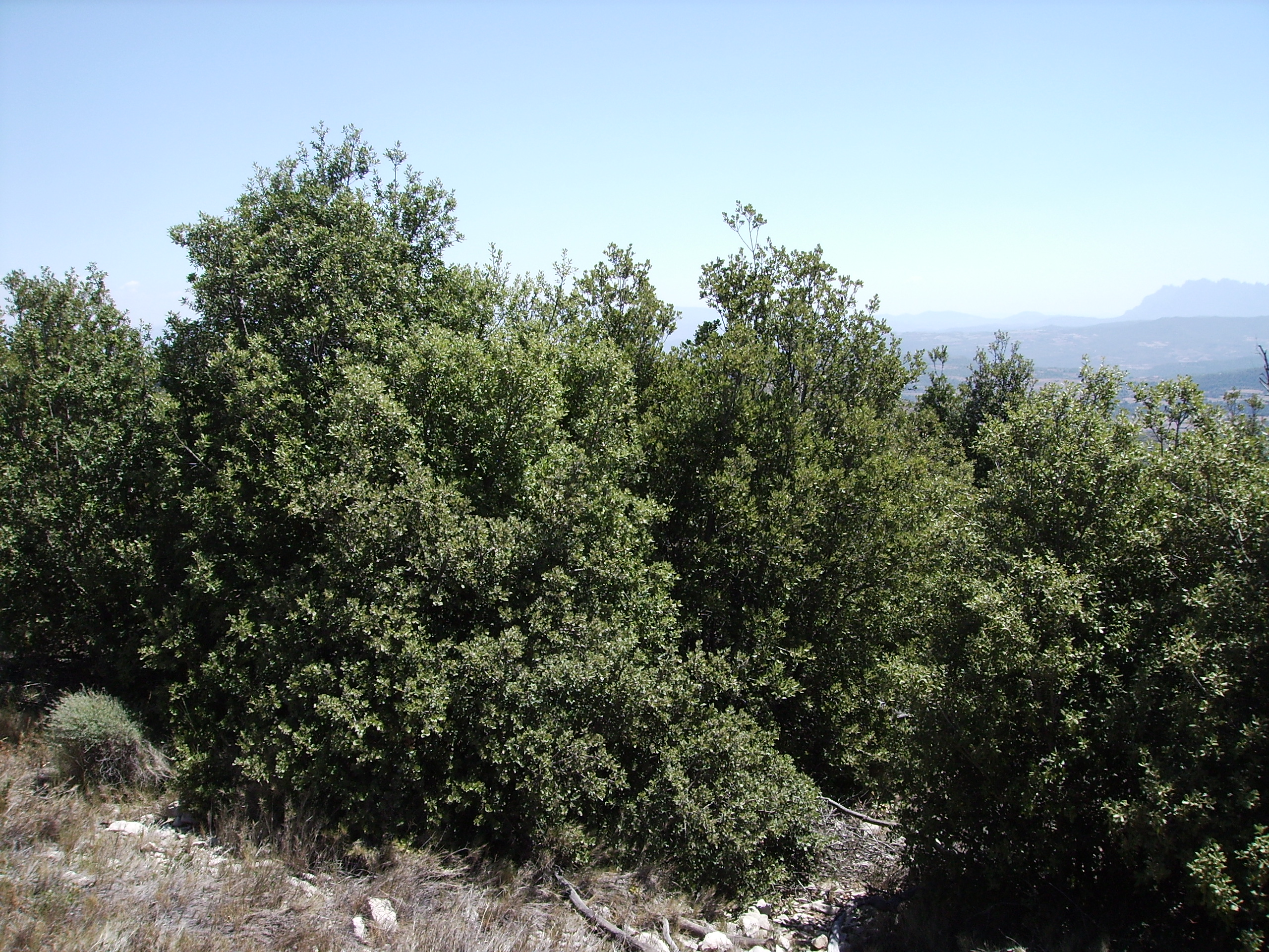 Image:Quercus_rotundifolia7__agost06_012.jpg Quercus ilex subsp. rotundifolia My own work, Castelltallat